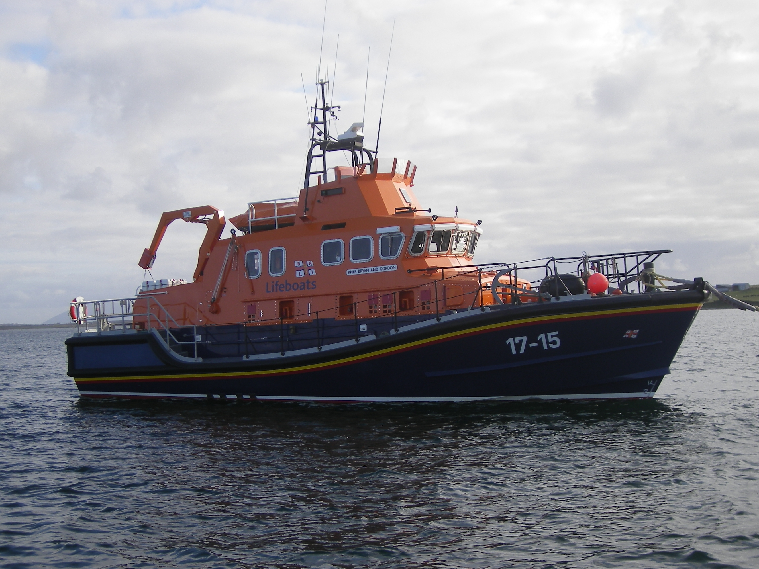 RNLB « Bryan and Gordon », Severn class, Republic of Ireland, July 2008